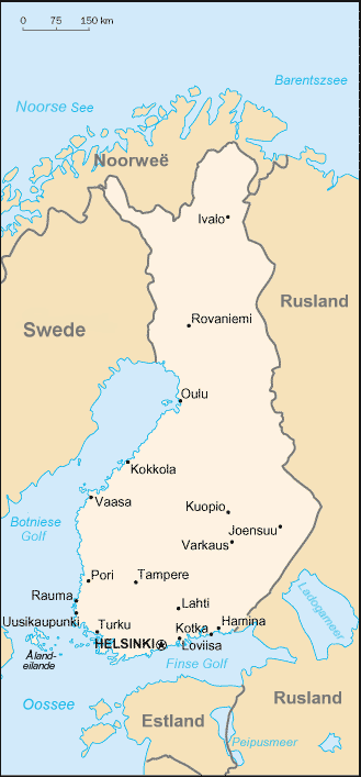 An Afrikaans map of Finland, based on the English CIA version.